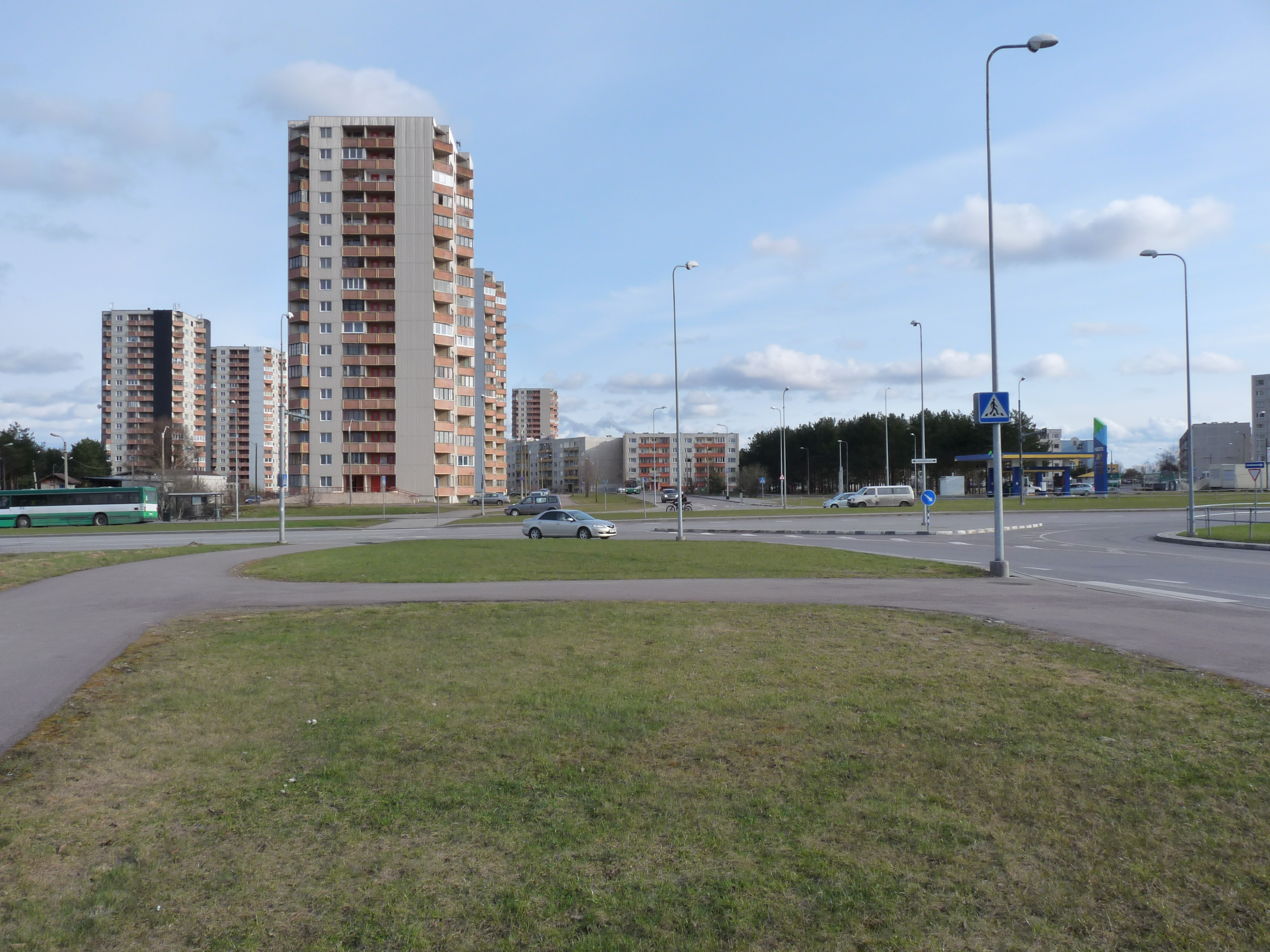 Tower blocks in Ümera street.